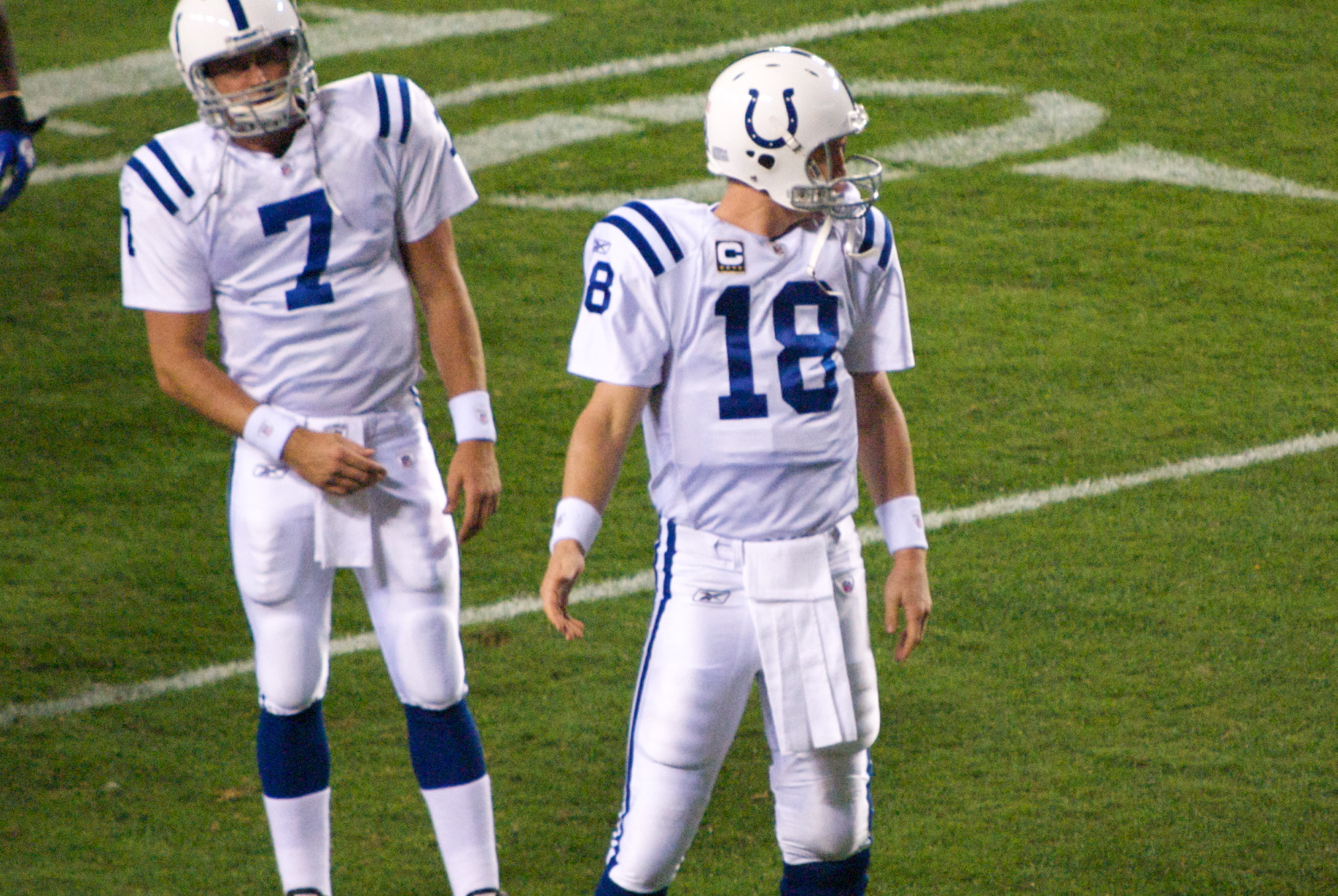 Curtis Painter and Peyton Manning, quarterbacks of the Indianapolis Colts